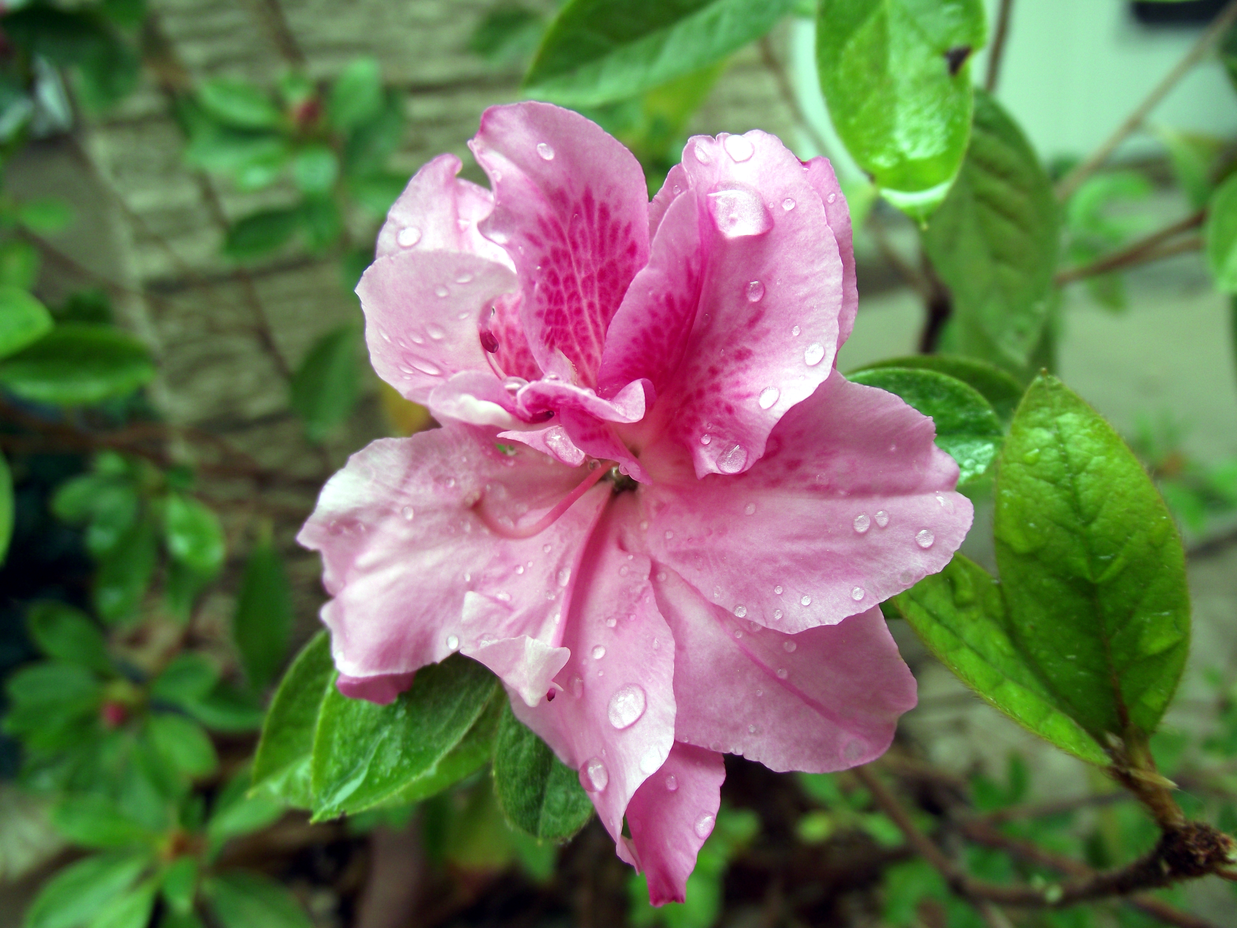 A Pink Azalea after a shower.